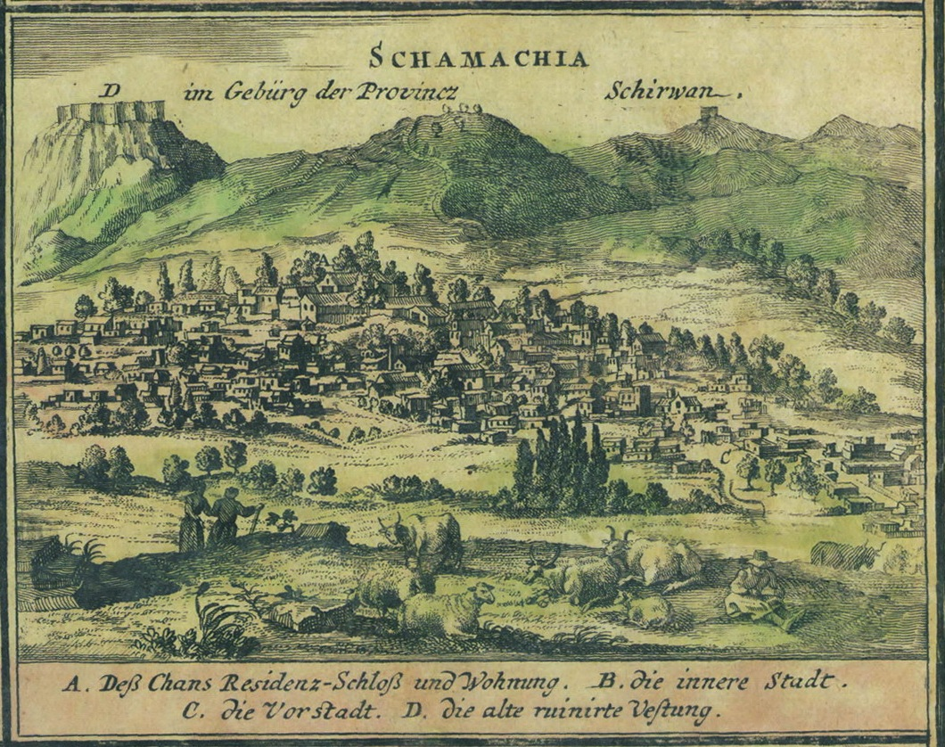 Shamakhi (town in Azerbaijan)